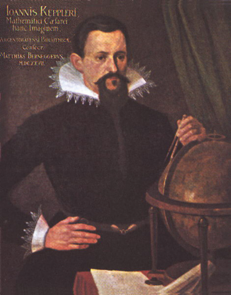 Portrait of Johannes Kepler.